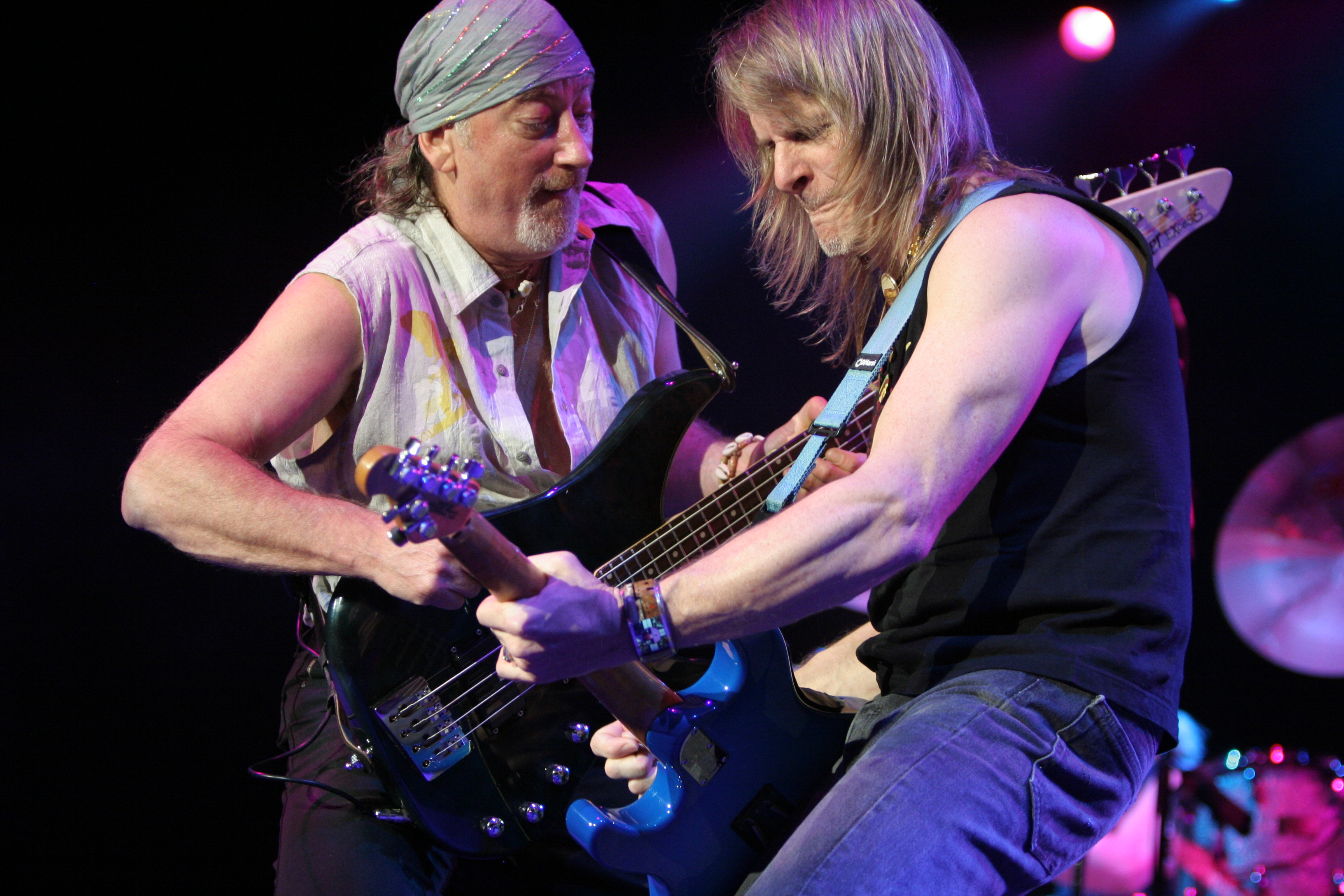 Roger Glover and Steve Morse of Deep Purple jamming during intro to the Highway Star at a concert at the Molson Amphitheatre, Toronto, Ontario, Canada.